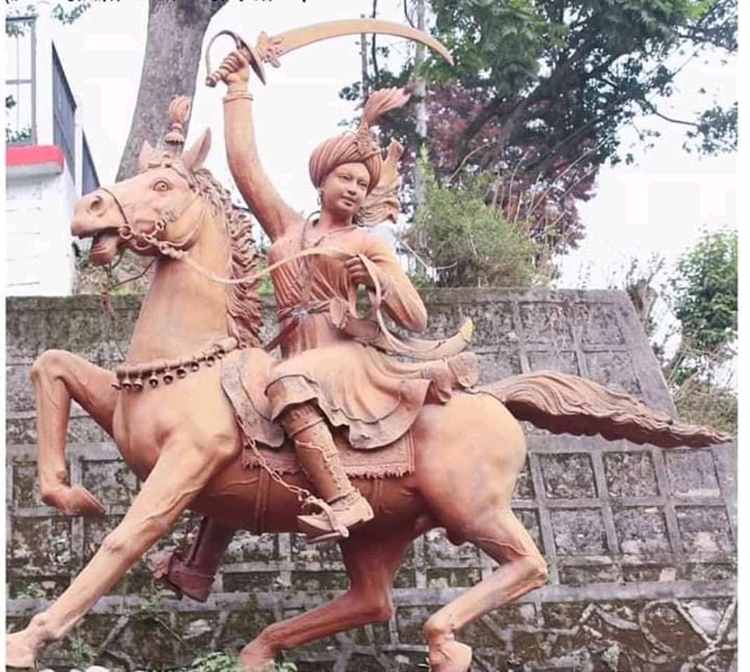 Jhalkari Bai Statue Uttar Pradesh